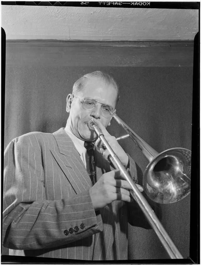 Bill Harris in the photographer's home 1947. Photography by William P. Gottlieb.